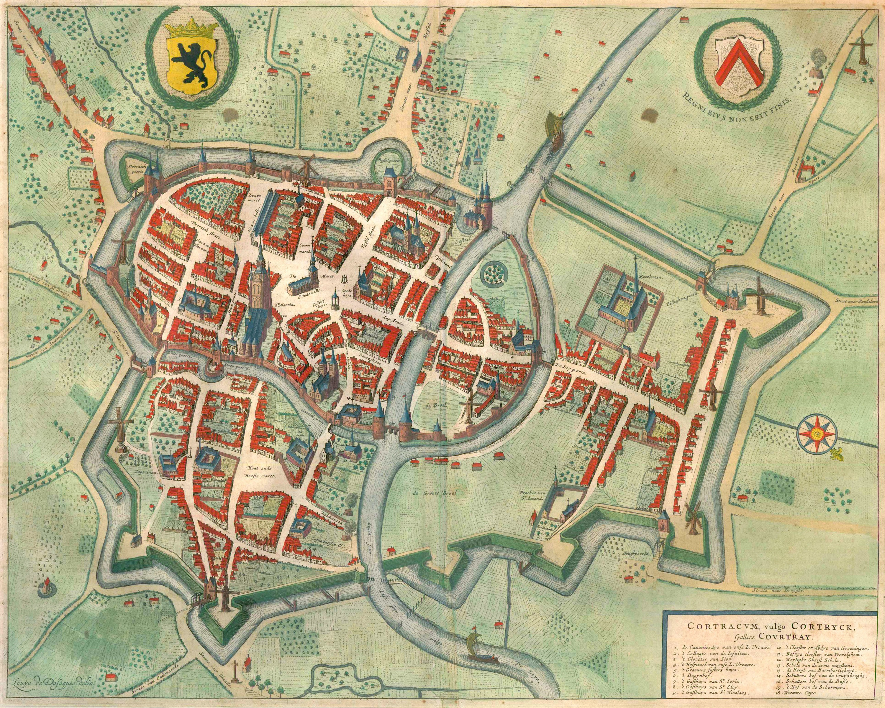 View of Kortrijk (Belgium) by Sanderus, as rendered in Novum Ac Magnum Theatrum Urbium Belgicae (Amsterdam: J. Blaeu, 1649)